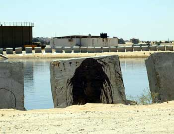 rafah wastewater treatement plant ewash